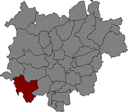 Location of Castellfollit del Boix in Bages